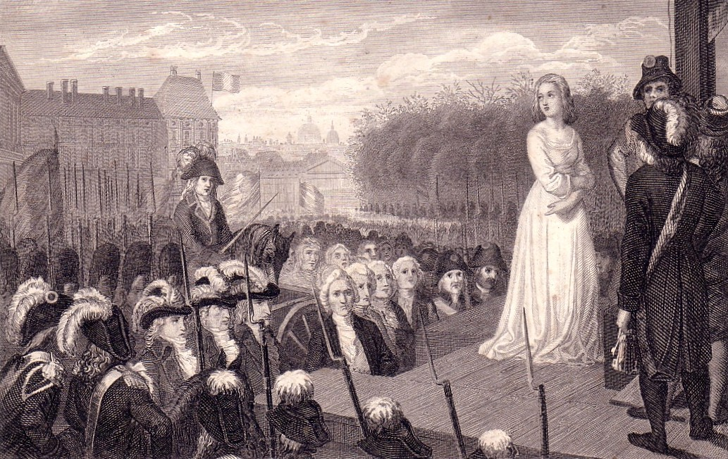 Marie Antoinette before her execution, steel engraving.